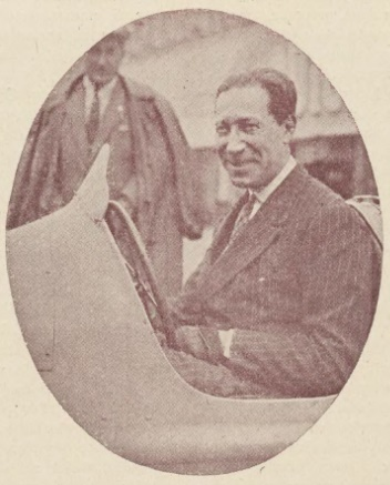 French racing driver